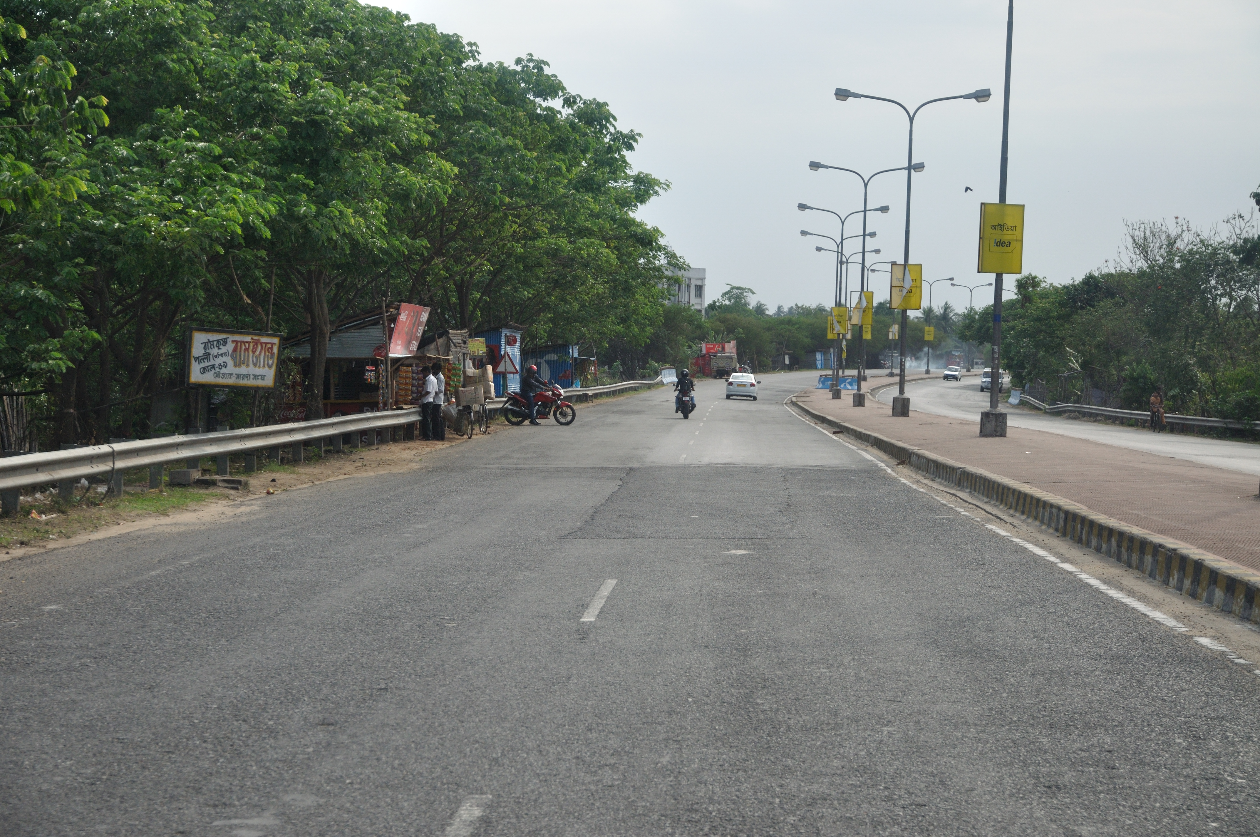 Photographed in West Bengal.